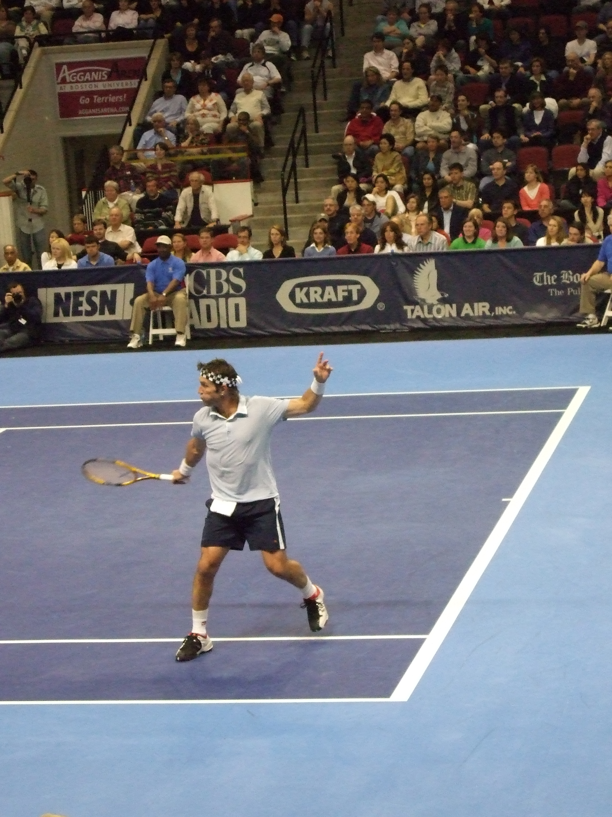 Pat Cash, Campions Cup, Boston.